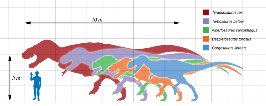 Size comparison of the best known members of the dinosaur family Tyrannosauridae with a human. Each grid square=1m. Based on the skeletal reconstructions of Scott Hartman.[1]